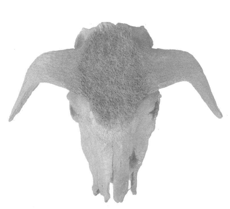 Image appearing on page 5 of On a Nearly Complete Skull of Symbos cavifrons Leidy from Michigan. (1915)